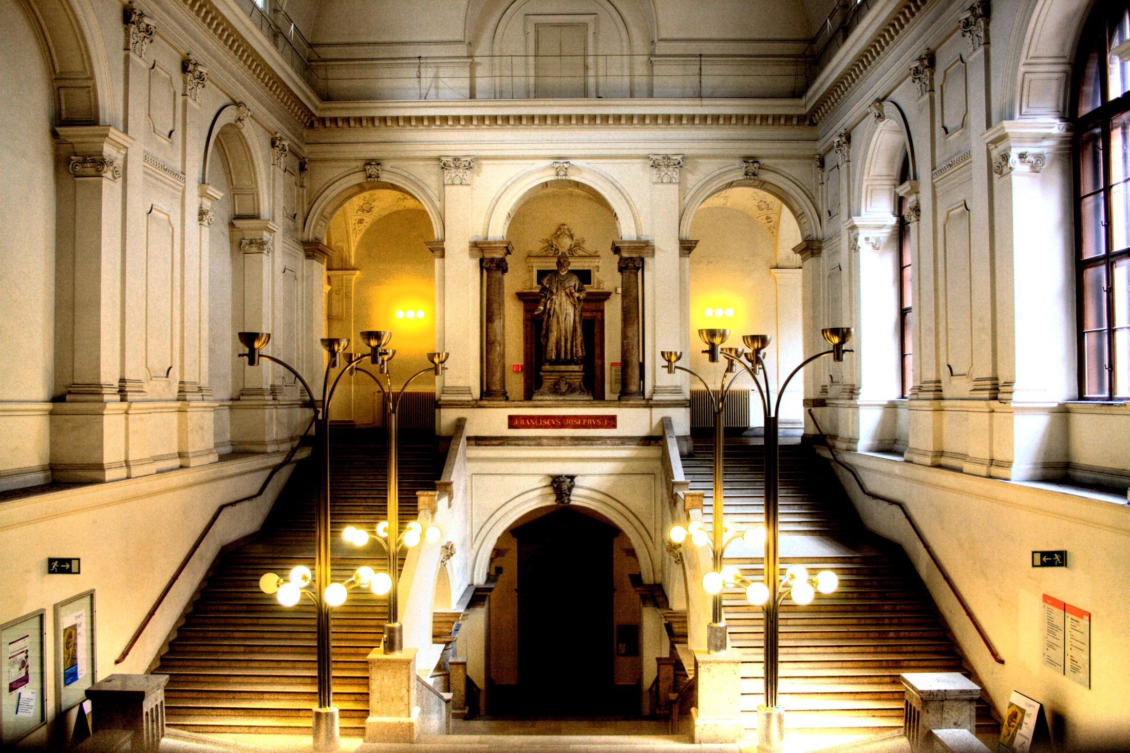 Main building of the University of Vienna